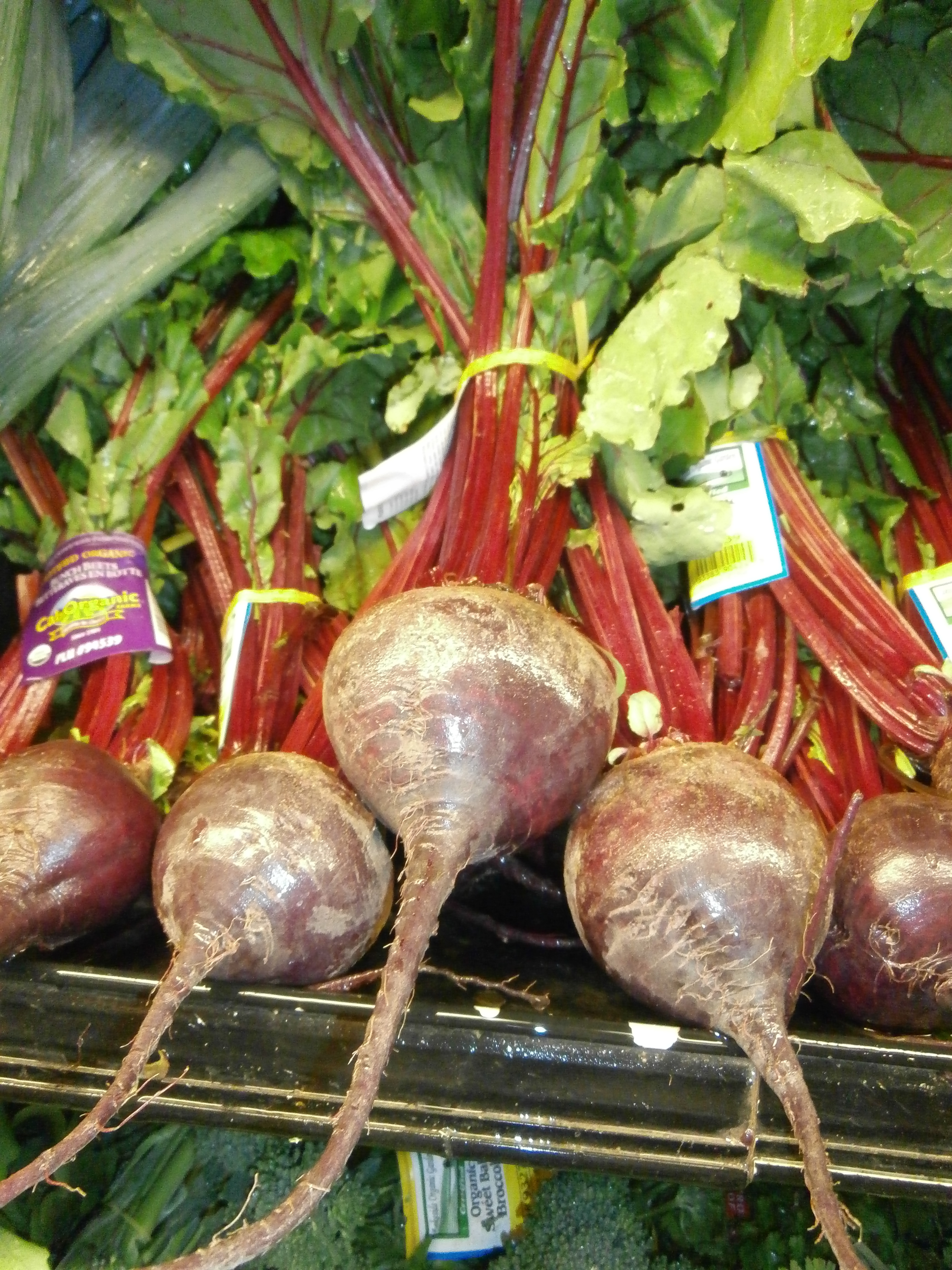 Beets with greens on a shelf in a grocery store.